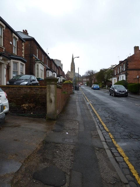 Single yellow line in Wilkinson Street